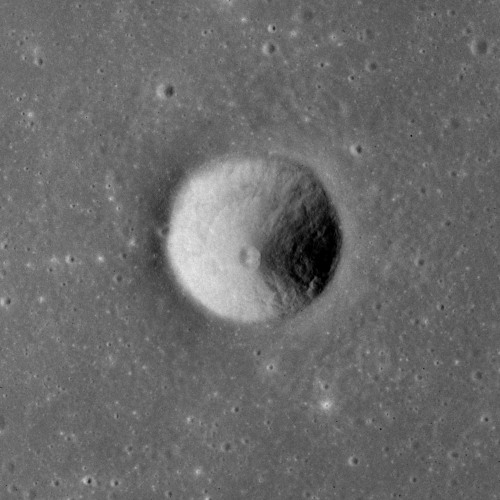 Sarabhai, Mare Serenitatis, on the moon. Camera Altitude is 107 km, Sun Elevation is 39°.